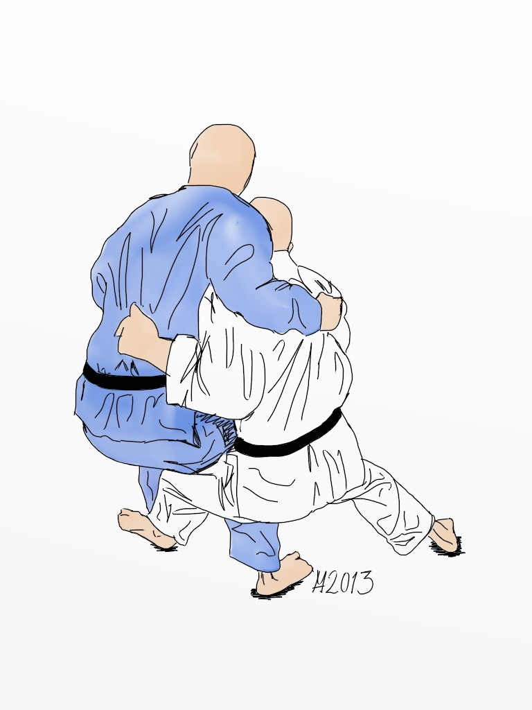 Illustration of the judo throw tani-otoshi, or valley-drop.